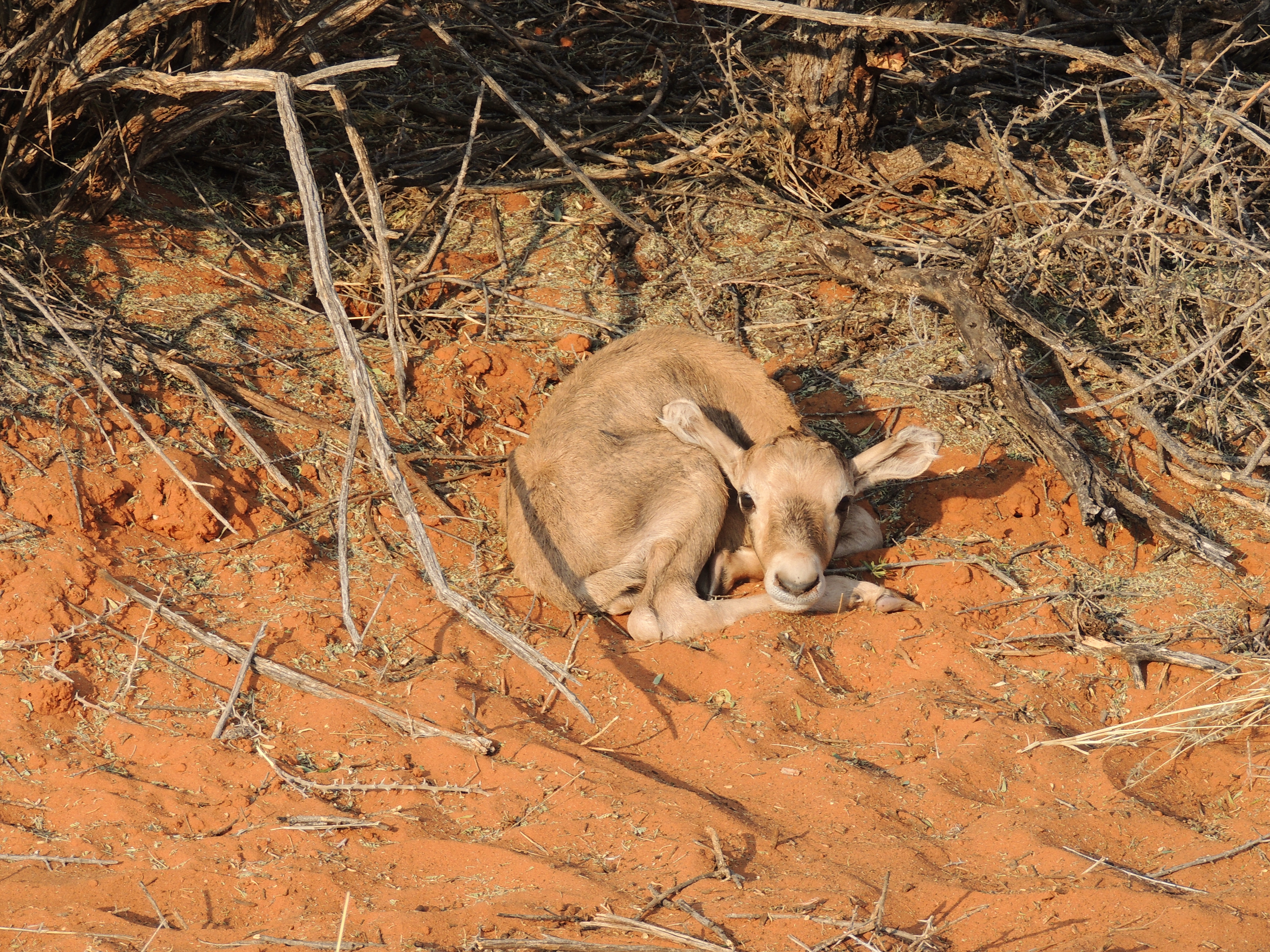 Oryx gazella 3 - Gemsbok cub